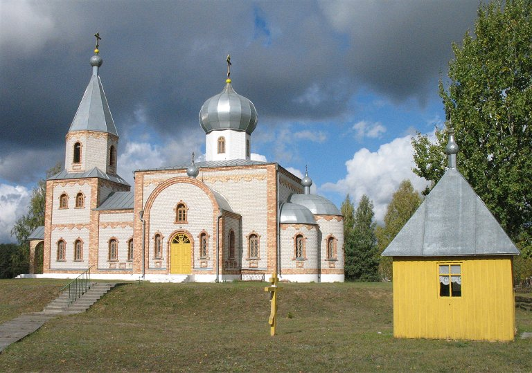 Orthodox church in Asipovichy (Асiповiчы; Осиповичи) in Mogilev region.